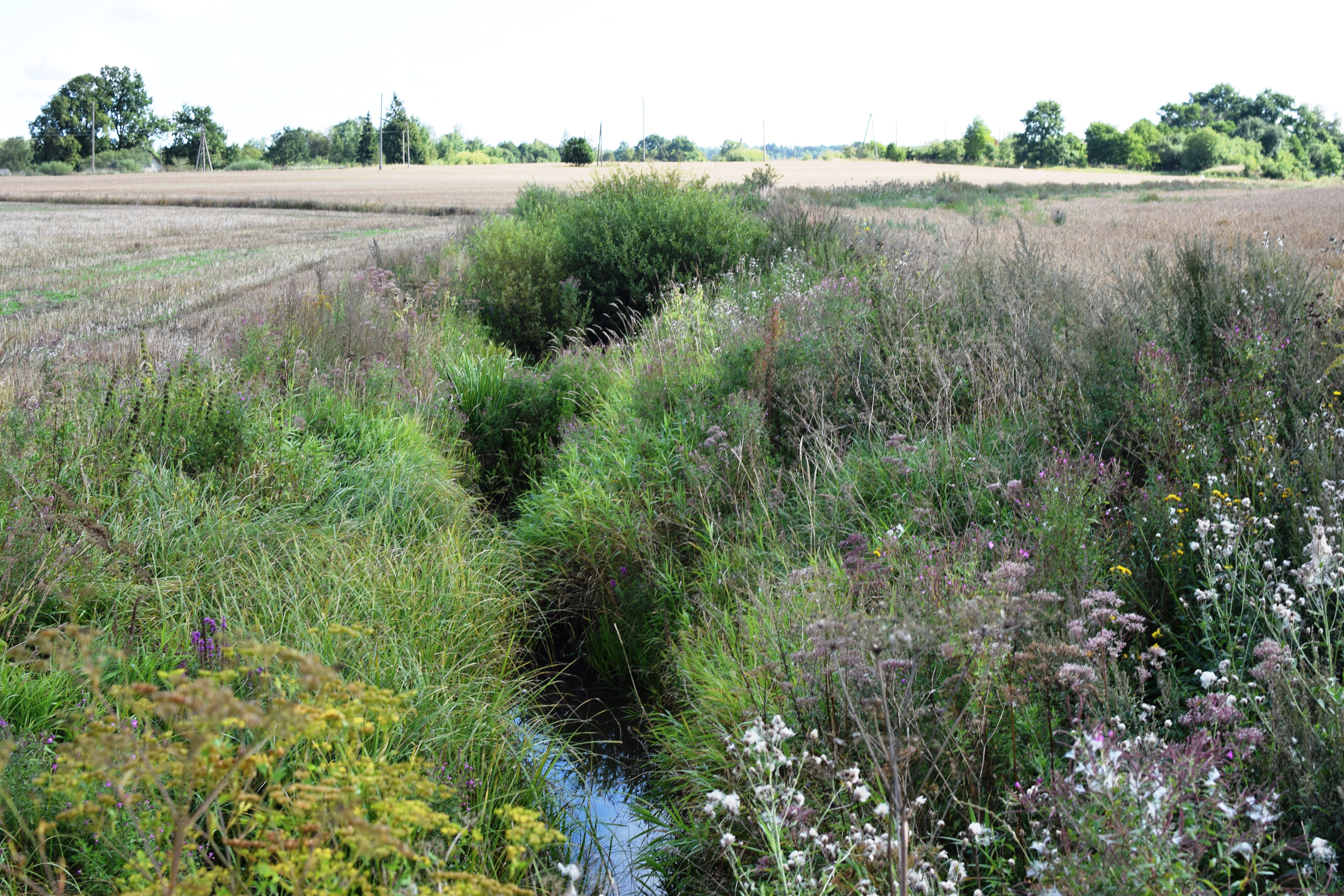 Saldus Municipality